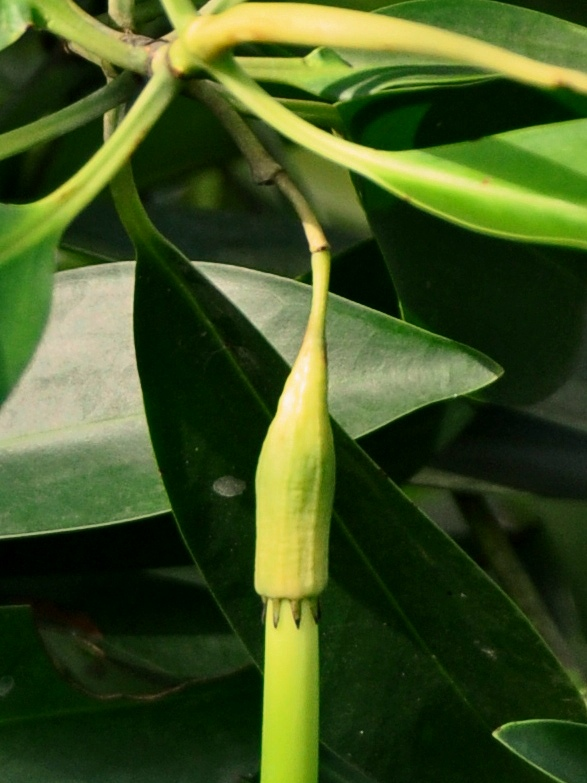 Lenggadai (Bruguiera parviflora); fruit closed-up to show its calyx tube and lobes. From Kotabaru, South Kalimantan, Indonesia.